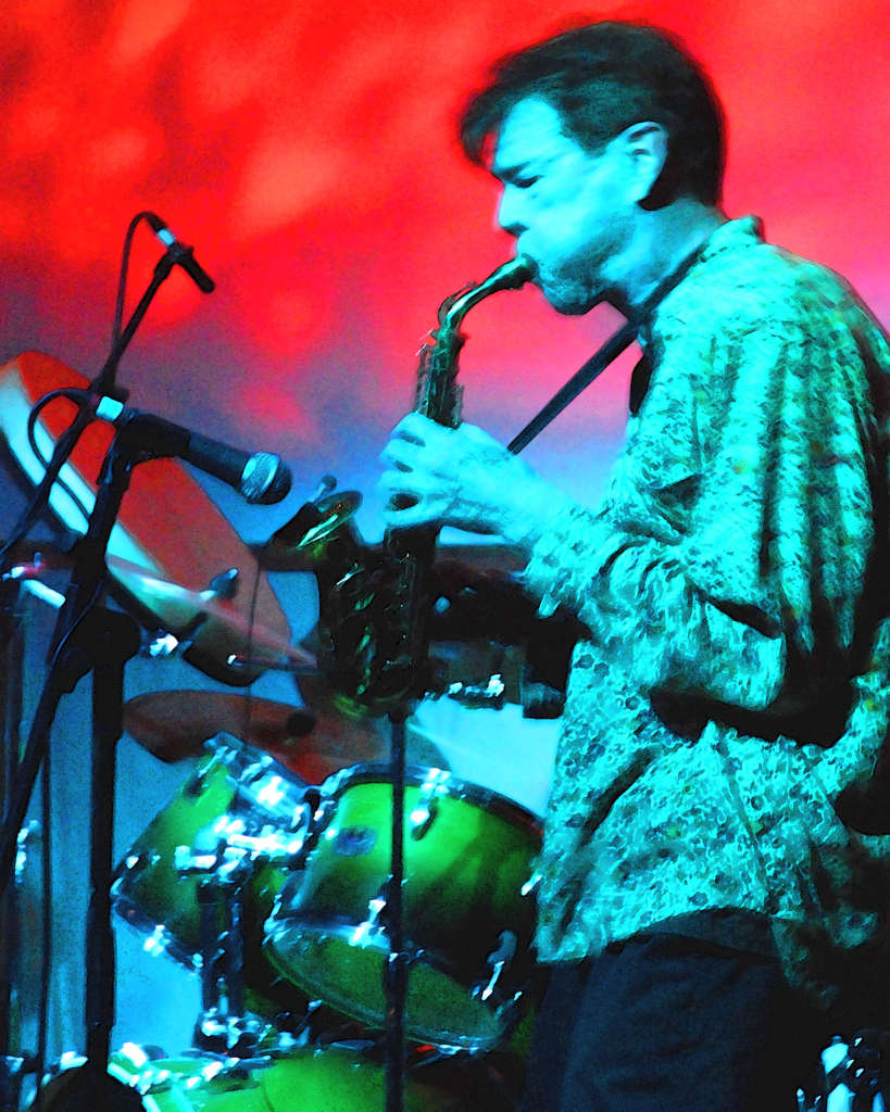 Geoff Leigh performing at the Avantgarde Festival in Schiphorst, Germany, 2008-07-05.